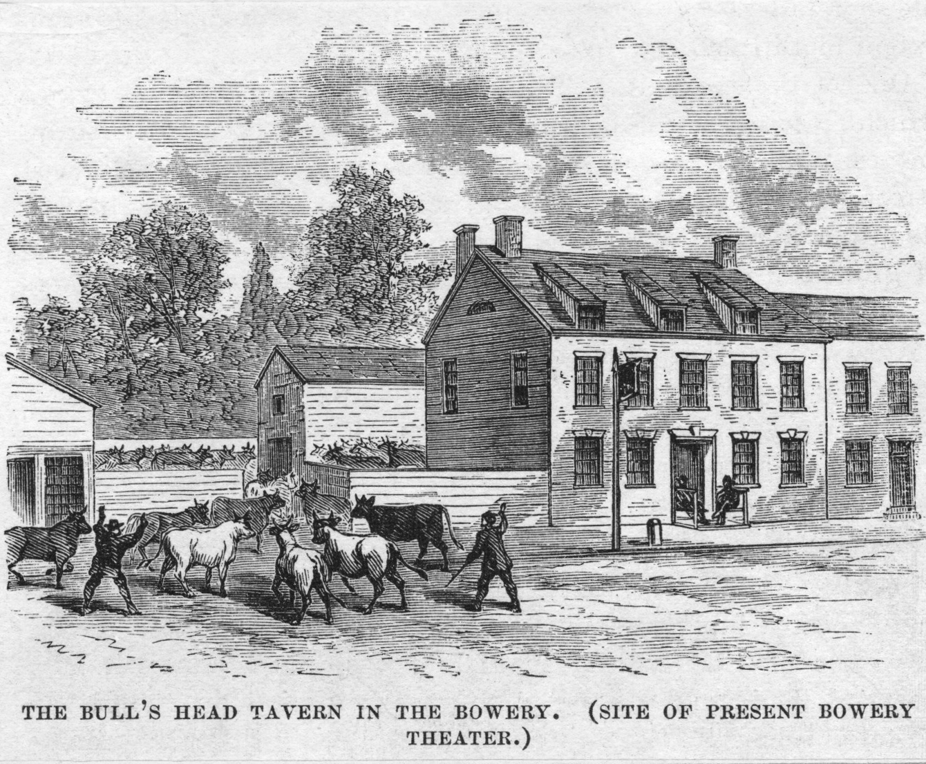 Includes photographic reproductions. Printmakers include Alexander Anderson, W.J. Bennett, C.G. Childs, A.J. Davis, A.B. Durand, Eliza Greatorex, George Hayward, John Rodgers & Imbert's Lithographic Office. Title from Calendar of Emmet Collection. EM11285